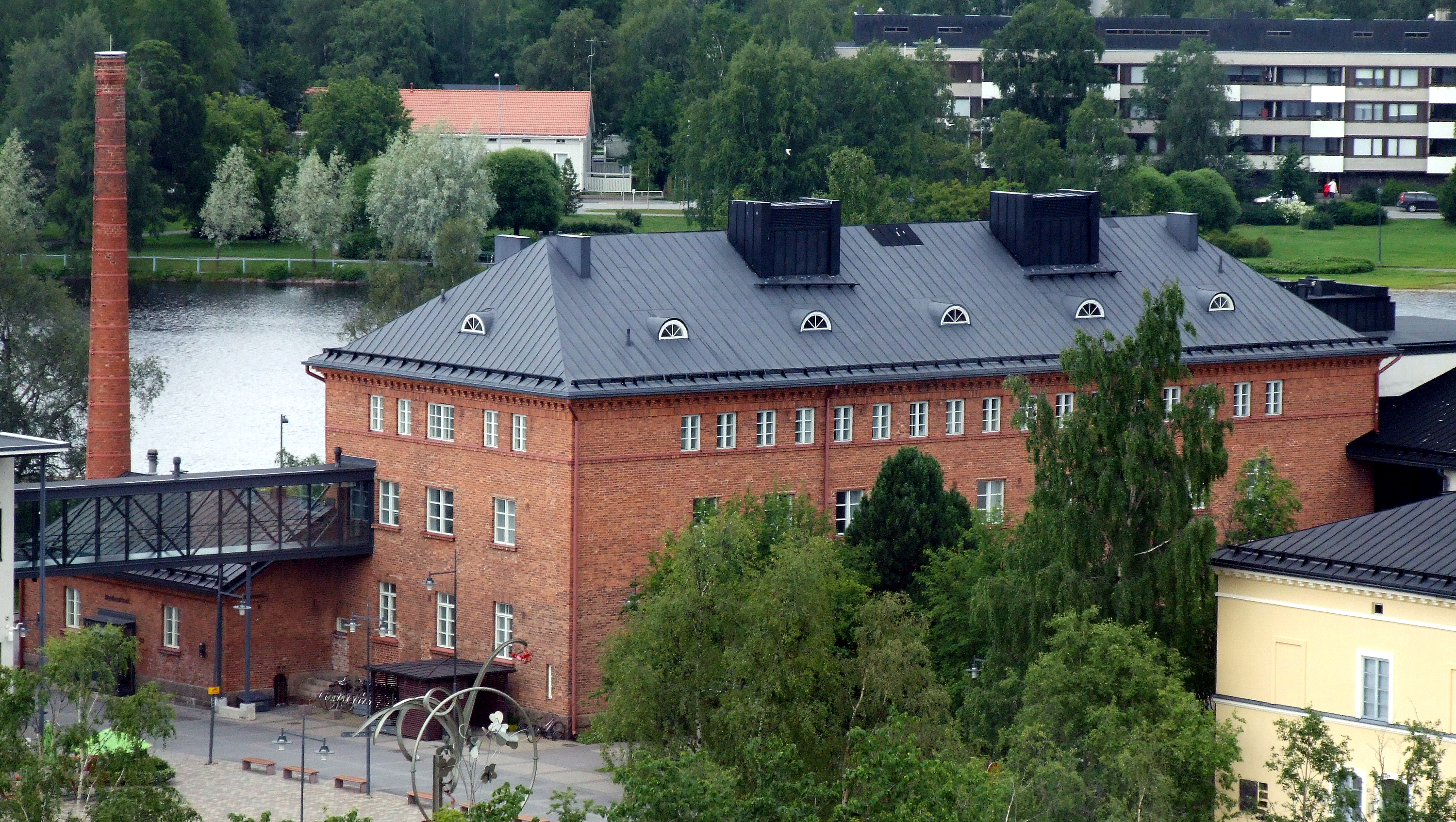 The former building of the provincial hospital of Oulu was designed by architect E.A. Kranck and built in 1923. Nowadays the building houses Hotel Lasaretti.